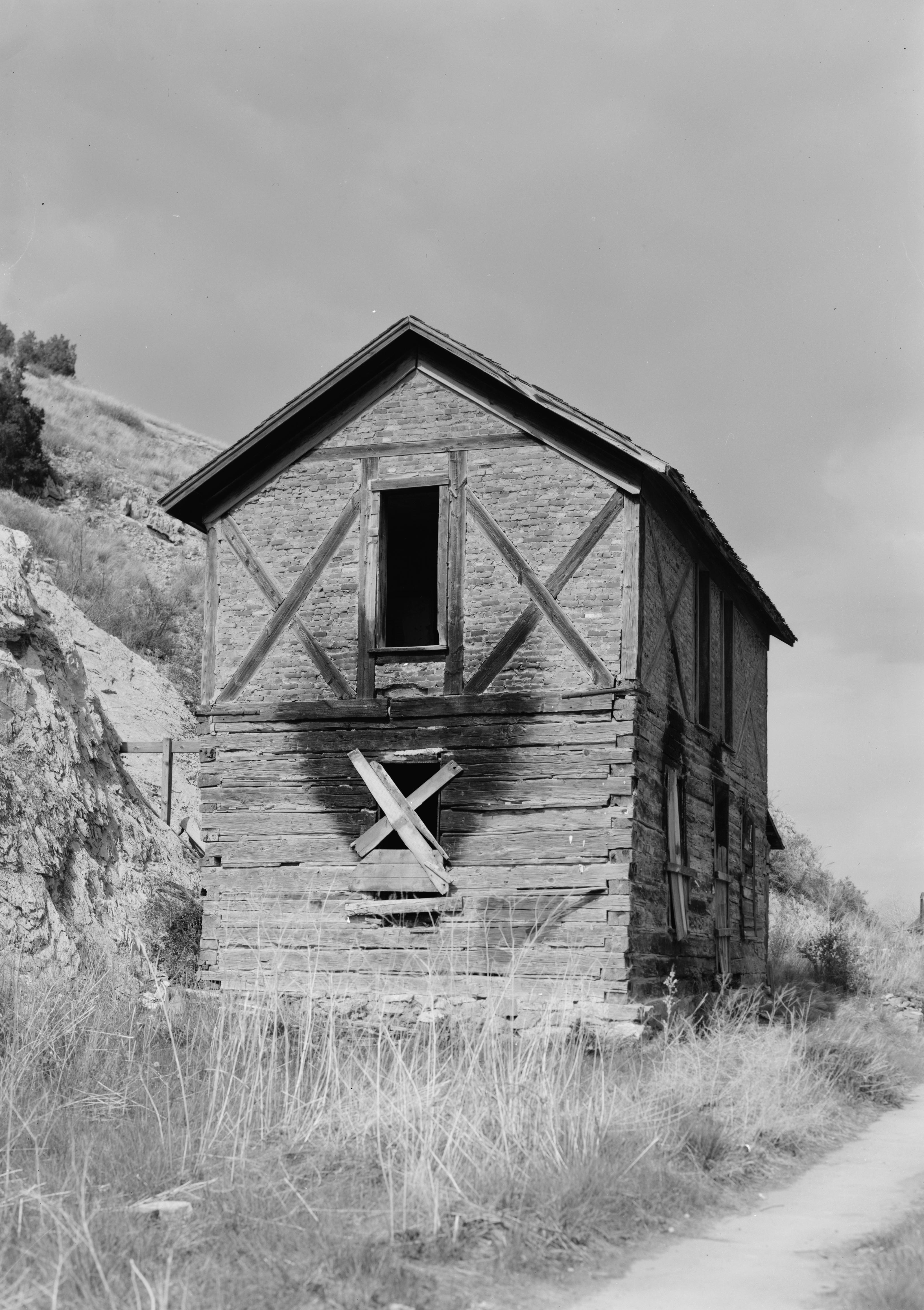 Streetside view of the Kluge House, located at 540 W. Main Street in Helena, Montana, United States. Built in 1882, the house is listed on the National Register of Historic Places.